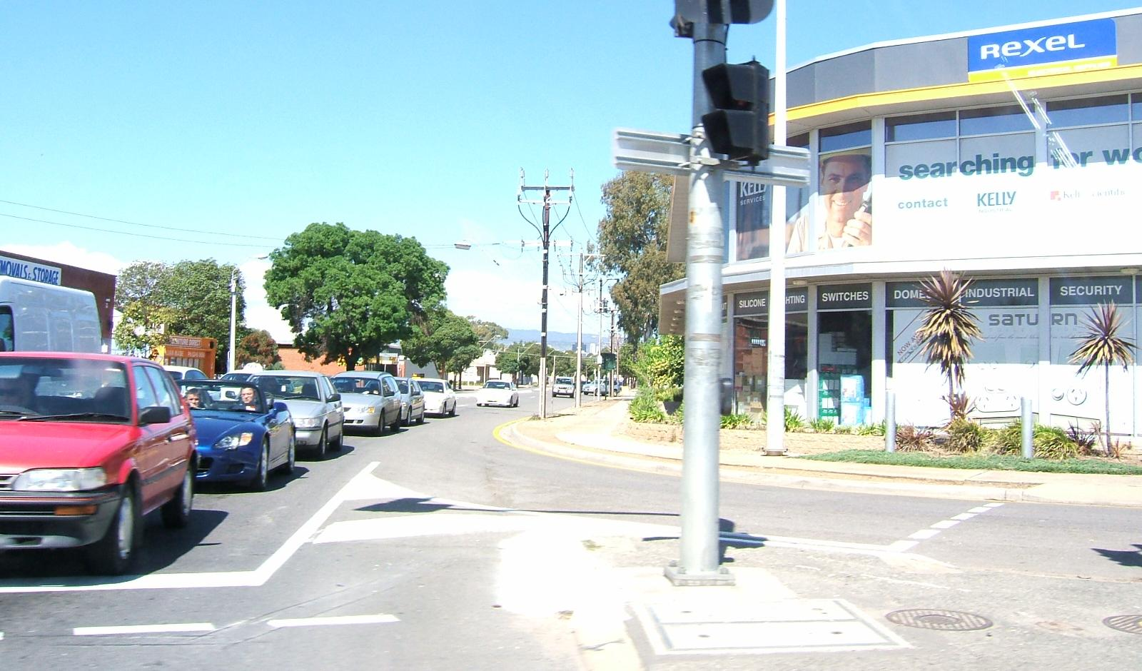 Intersection of Manton Street and South Road, Hindmarsh, South Australia, looking south-east down Manton Street, towards the River Torrens.